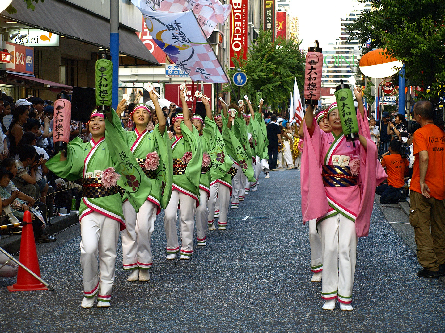 Hamakoi Dance Festival 2009 on the street in front of the supermarket Daiei near the Yokohama railway station.